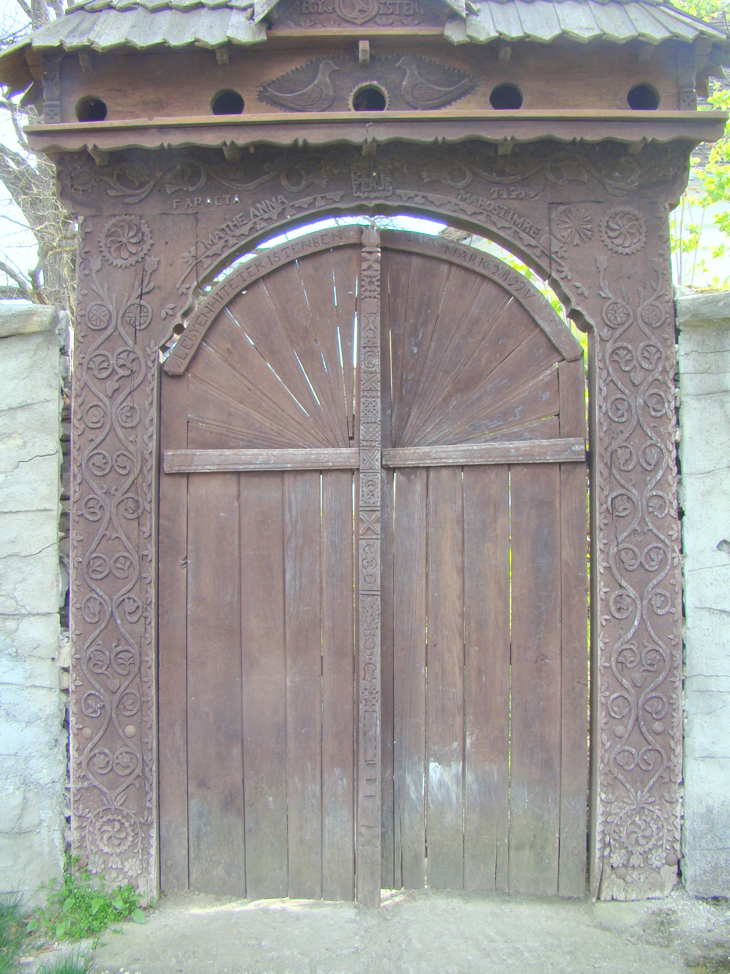 Unitarian church in Șimonești, Harghita county, Romania